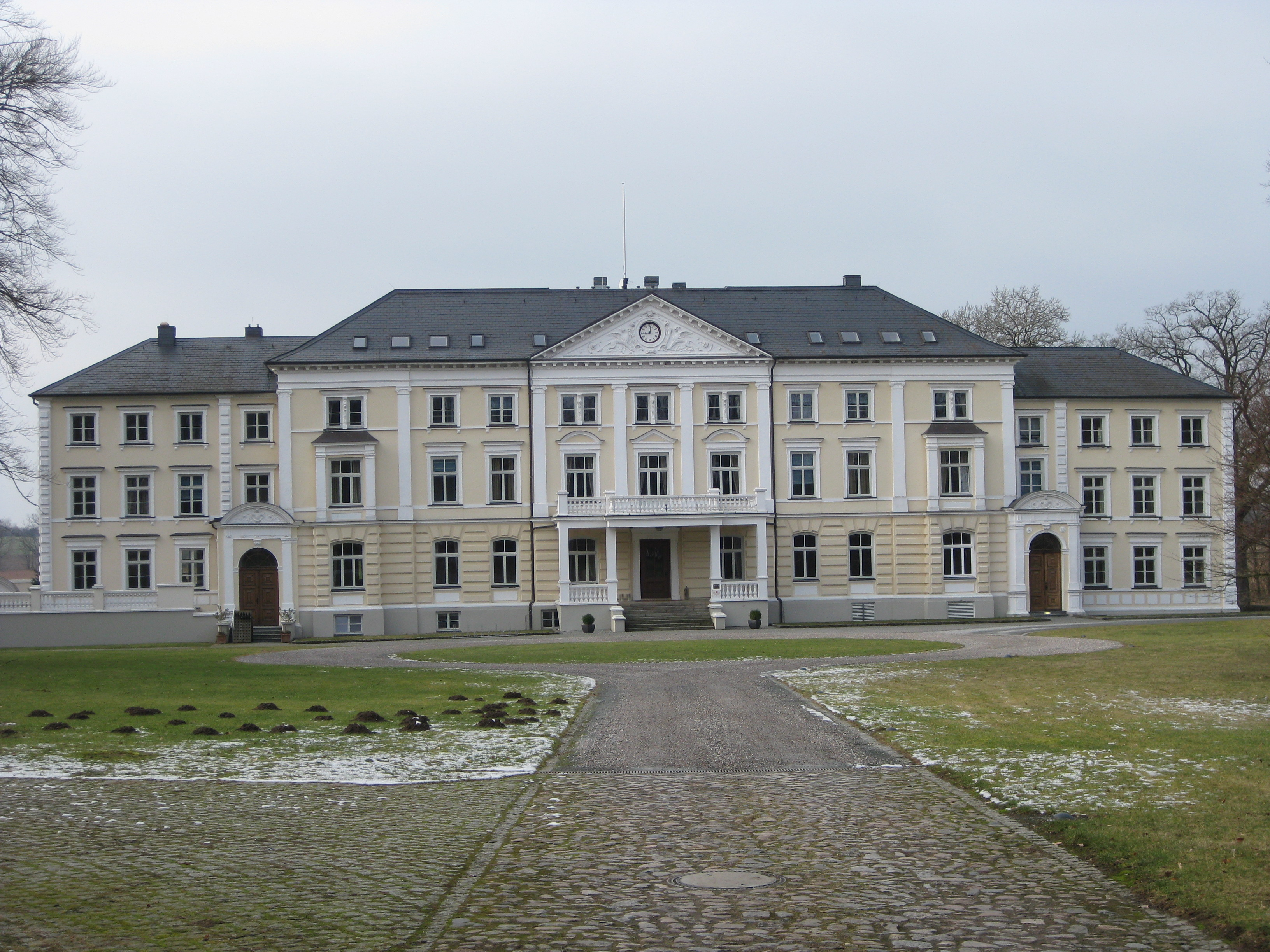 Lütgenhof manor, a Hotel in Dassow on the banks of river Stepenitz